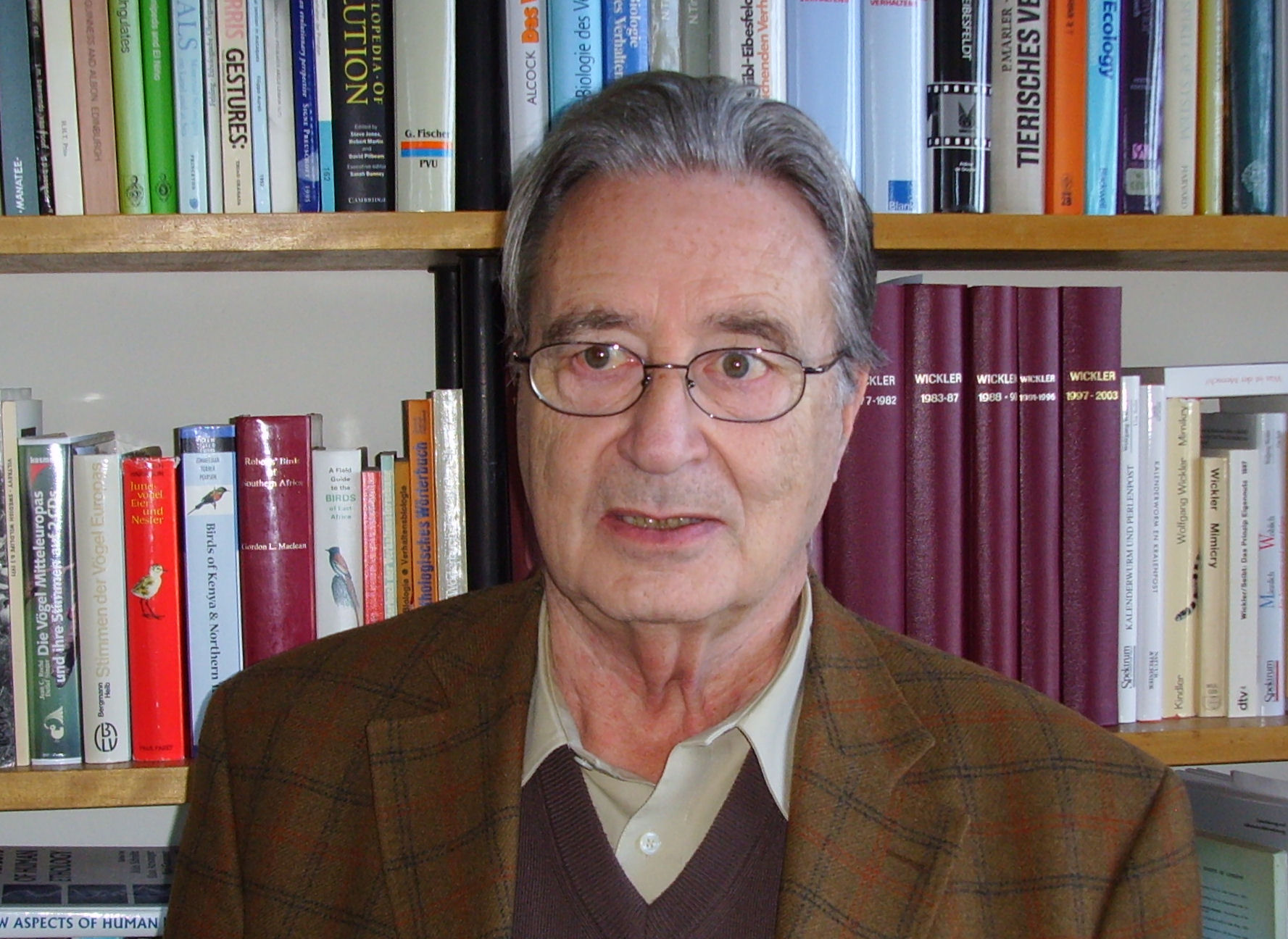 Prof. Wolfgang Wickler. 1974 - 1999 Director of the German Max-Planck-Institut für Verhaltensphysiologie; born 1931 in Berlin